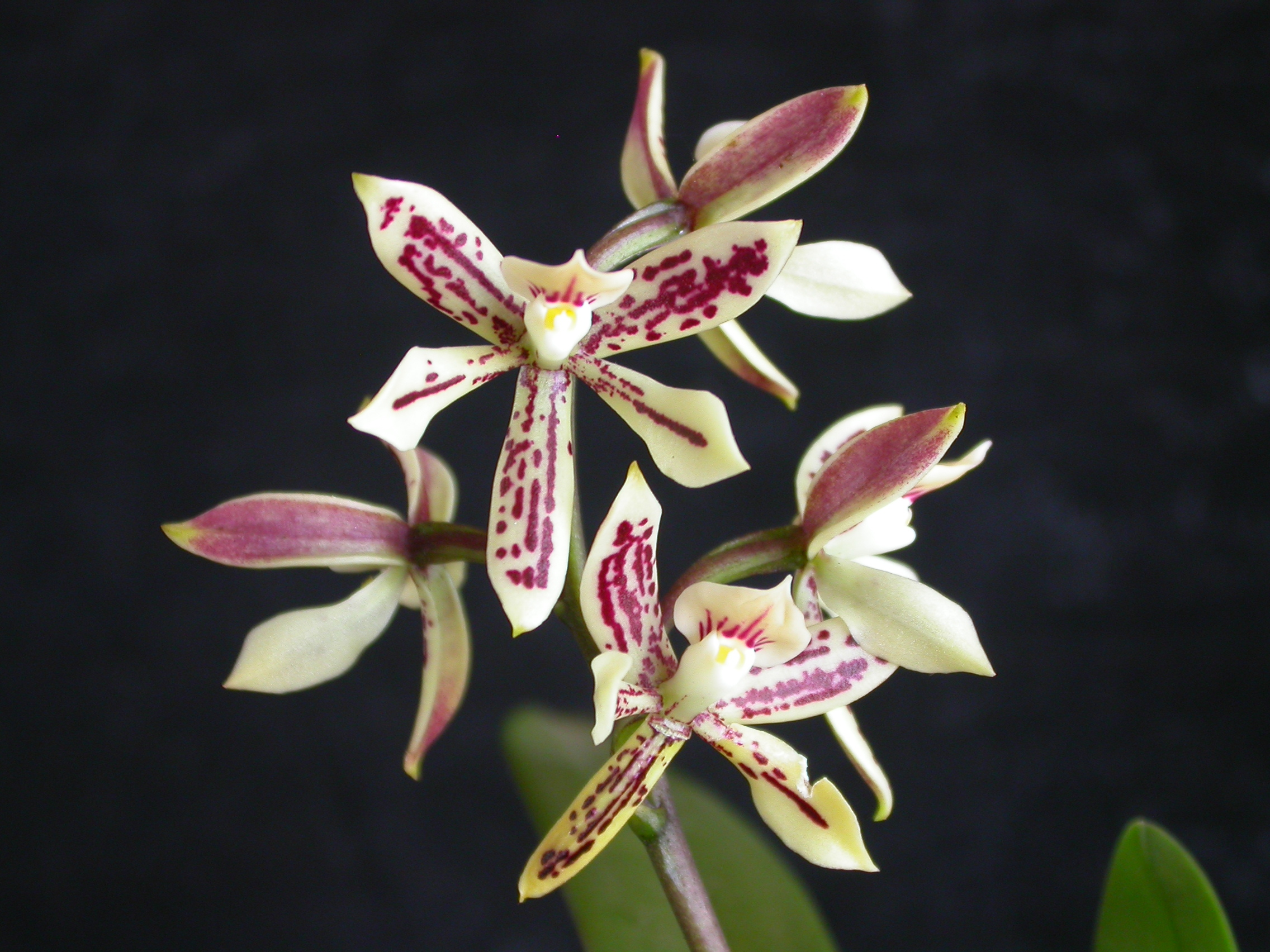 Anacheilium bueraremense